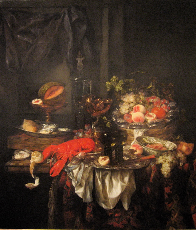 Abraham van Beyeren (Holland, 1620 - 1690) Banquet Still Life, 1667 Painting, Oil on canvas, 55 1/2 x 48 in. (141 x 121.9 cm) Gift of The Ahmanson Foundation (M.86.96) Wikipedia Loves Art at the Los Angeles County Museum of Art This photo of item # M.86.96 at the Los Angeles County Museum of Art was contributed under the team name "artifacts" as part of the Wikipedia Loves Art project in February 2009. Los Angeles County Museum of Art The original photograph on Flickr was taken by Beesnest McClain—please add a comment to the original Flickr page whenever a use has been made on Wikipedia or another project. Project galleries on Flickr: this institution, this team